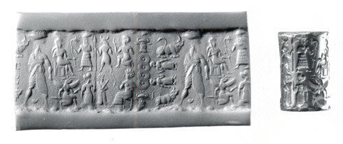 Cylinder seal and modern impression Human figures and demons,ca. 1820–1730 BC Syria